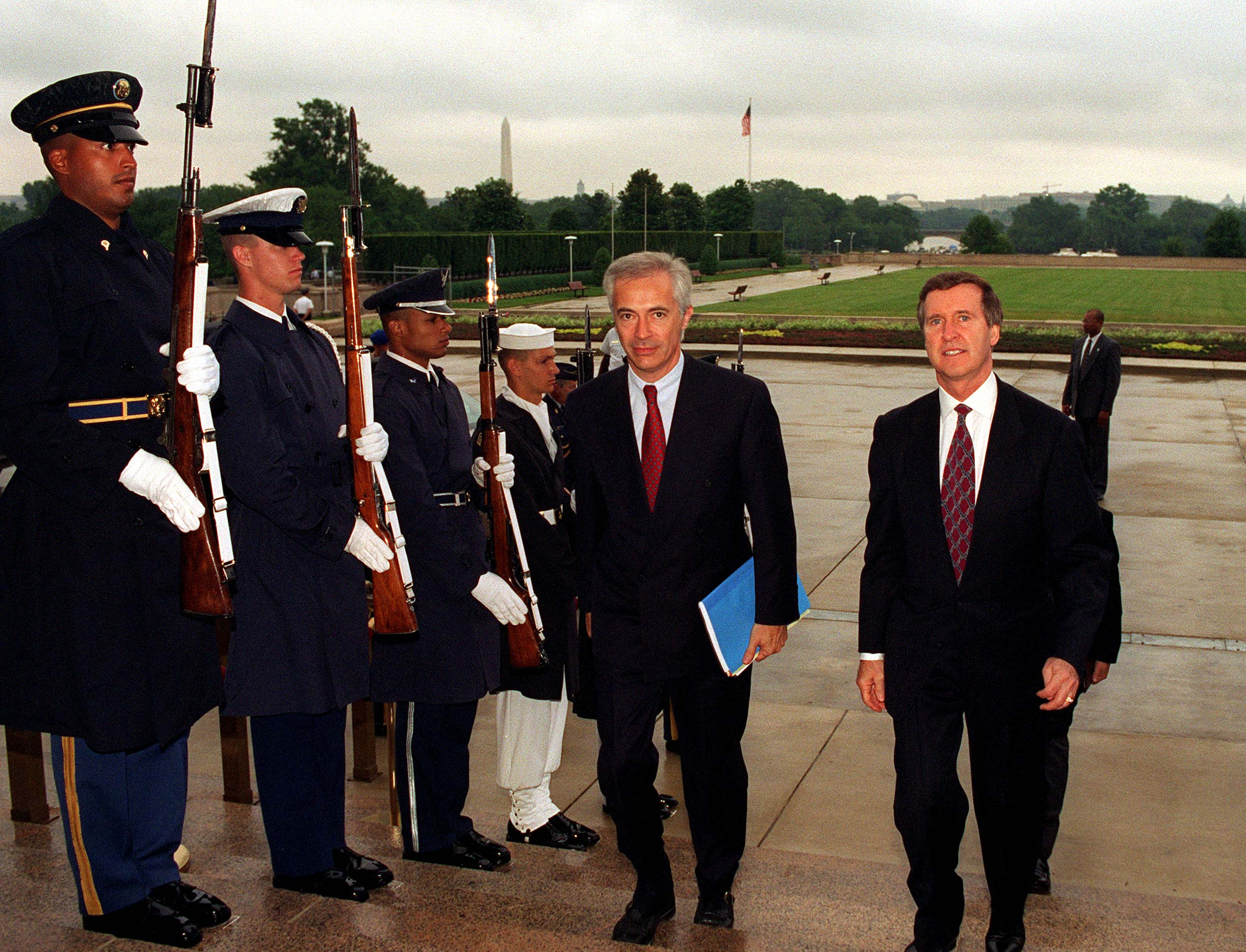 Secretary of Defense William S. Cohen (right) escorts Belgian Defense Minister Jean-Pol Poncelet (left) through an armed forces honor cordon into The Pentagon on July 2, 1997.